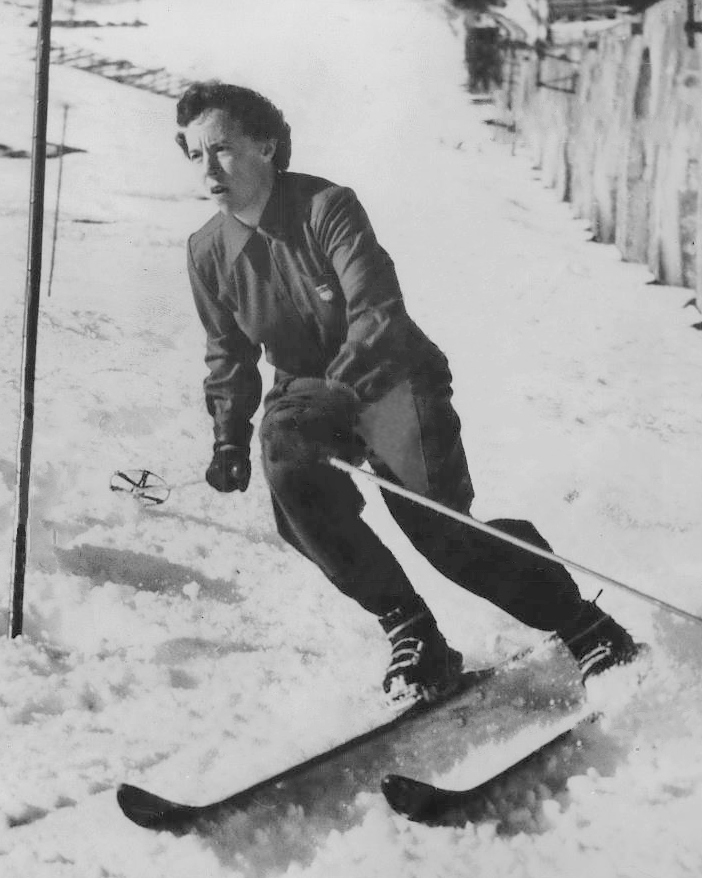 1952 Press Photo Betty Weir, member of U. S. Olympic Ski Team